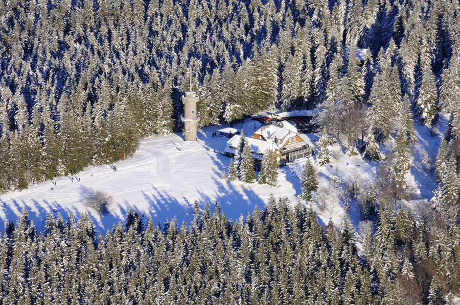 Brend (Black Forest, Germany)